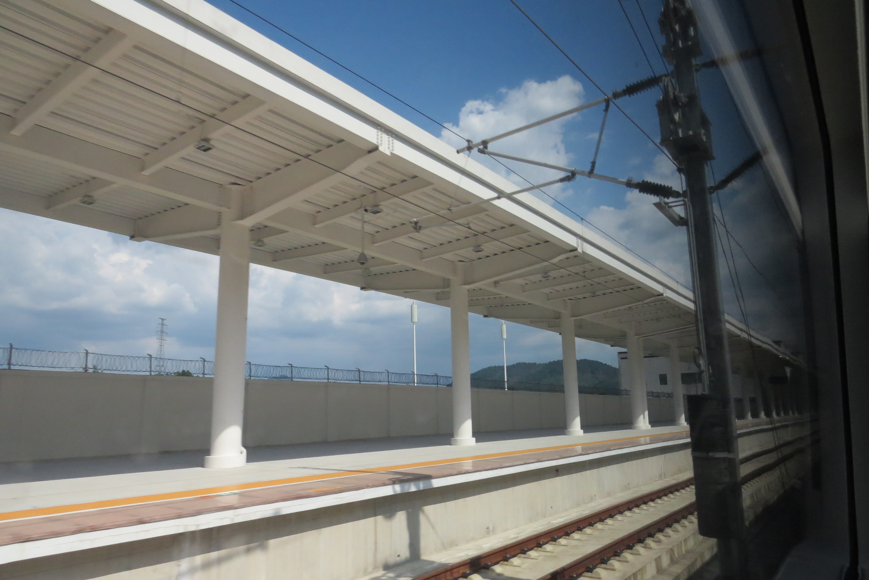 Xuancheng blue, or Huizhou blue!